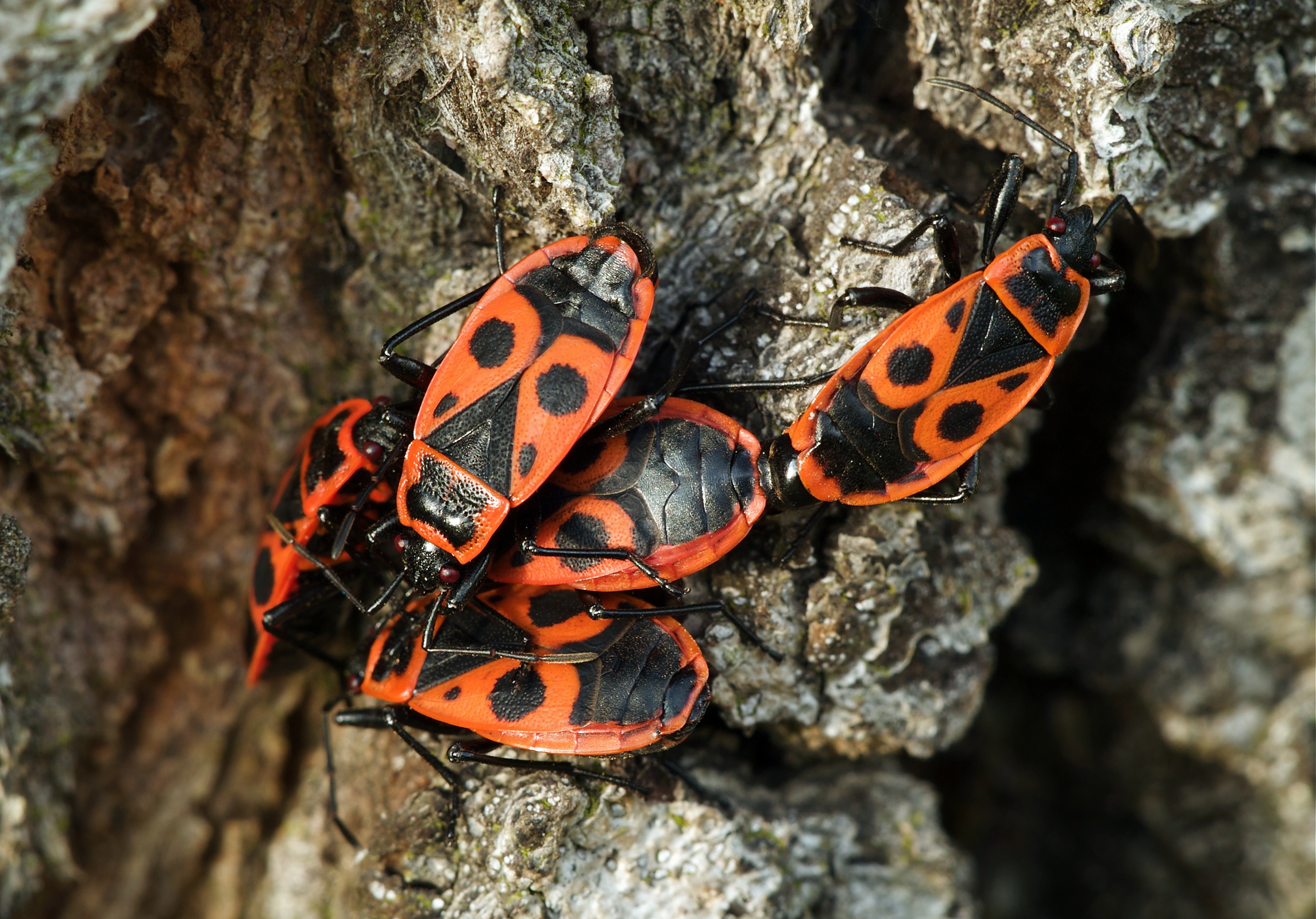 Mating Firebugs (Pyrrhocoris apterus), Chemnitz, Germany